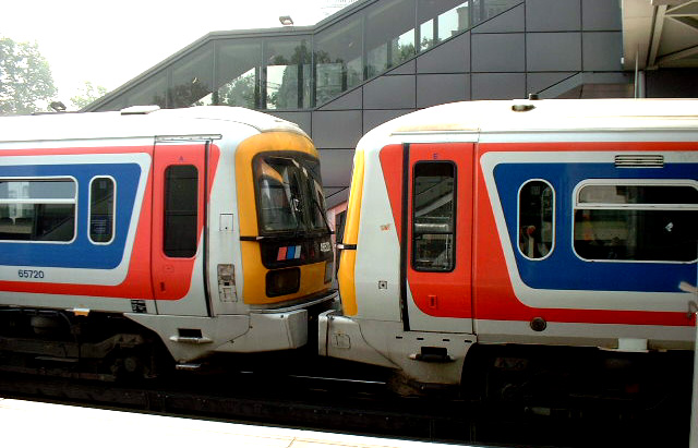 MetCam on the left, BREL on the right. The BREL has air-intake slots above the main windows.